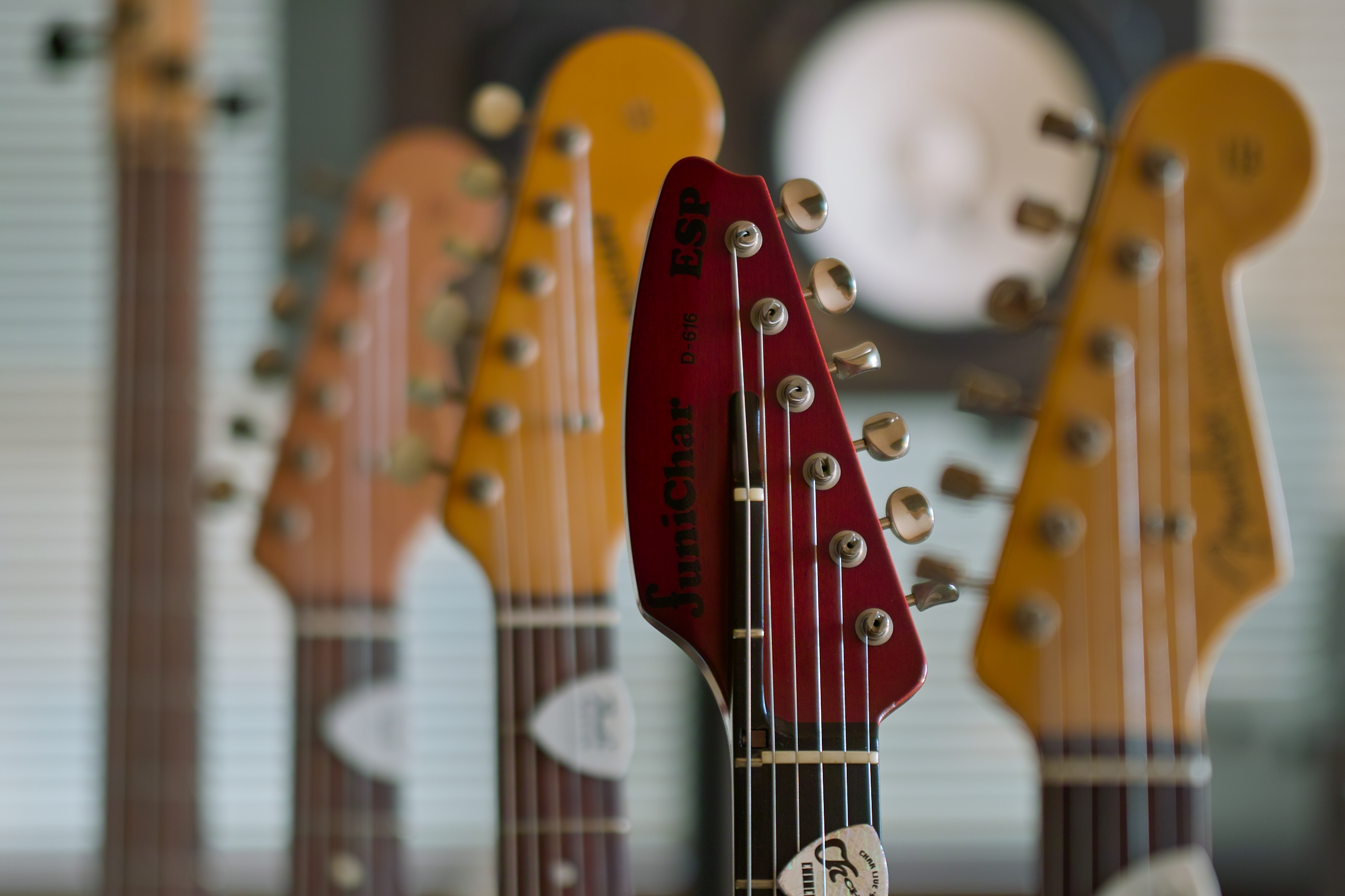 ESP FuniChar D-616 Drop D tuning is available with the extended fretboard...